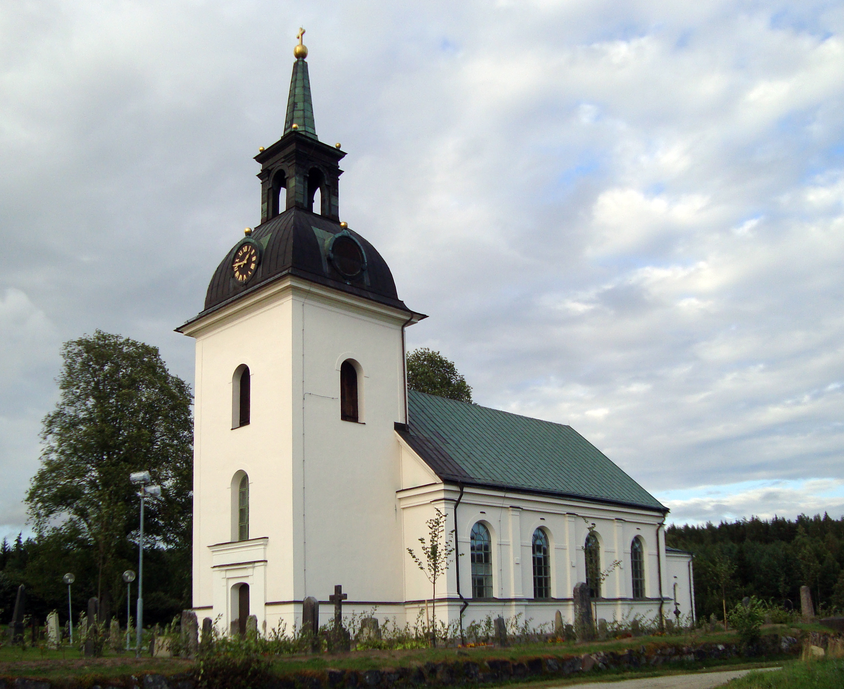 Church of Västervåla, Fagersta Municipality, Sweden